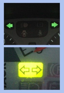 Two types of instrument cluster turn signal telltale indicators